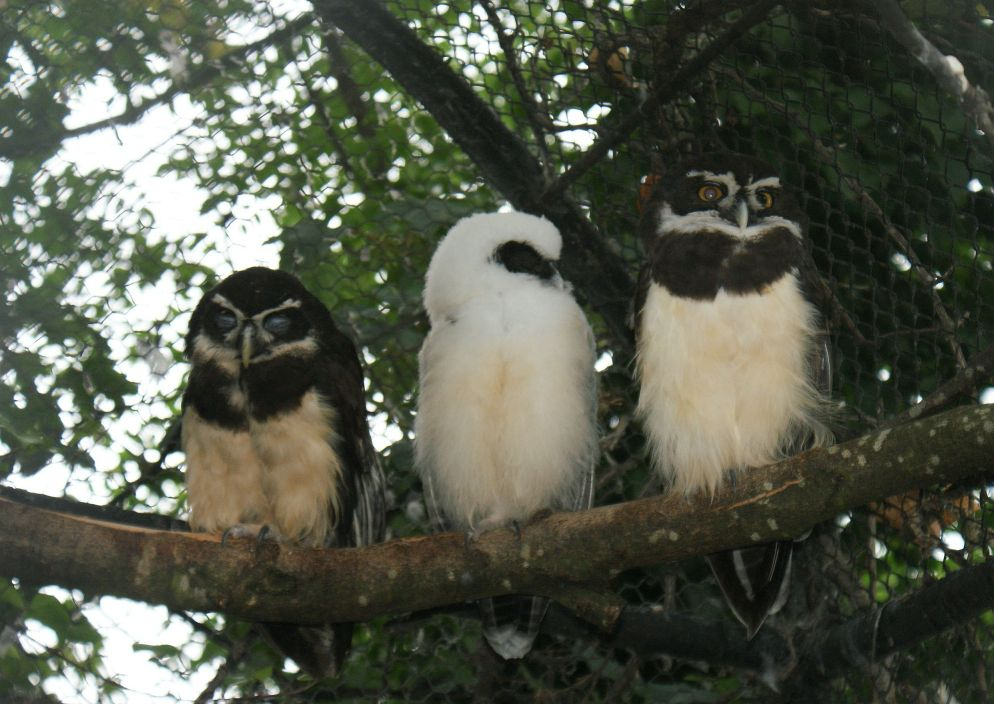 Spectacled Owl parents with a chick at London Zoo, England. The chick is mostly white and is perching between its parents.